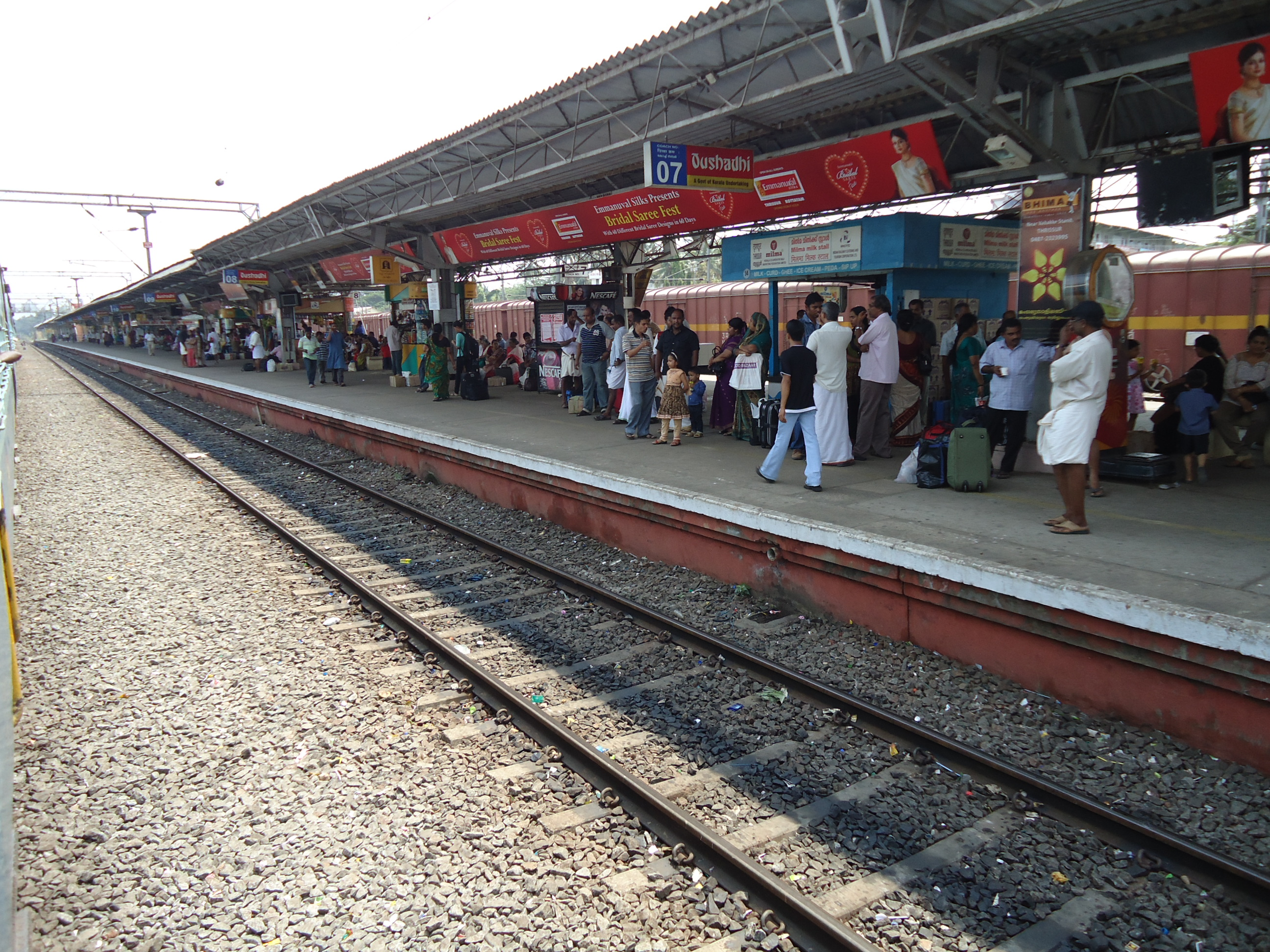 This media file is uploaded with Malayalam loves Wikimedia event.